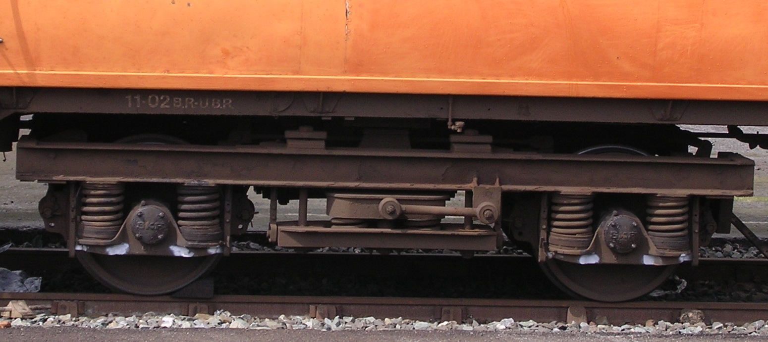 ÁBT4 Bogie introduced in the 1950's